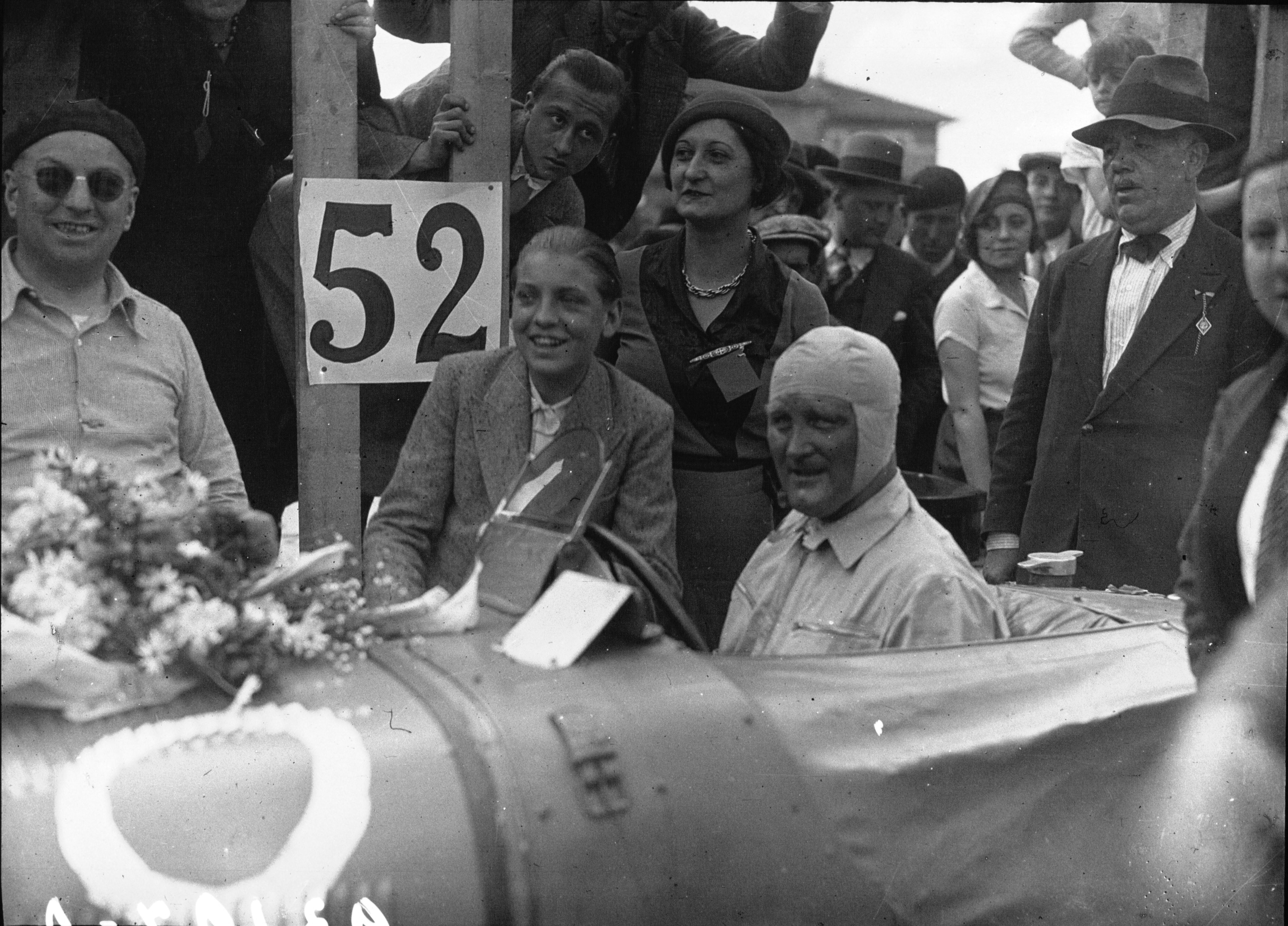 Stanisław Czaykowski in his Bugatti at the 1932 Provence Trophy.